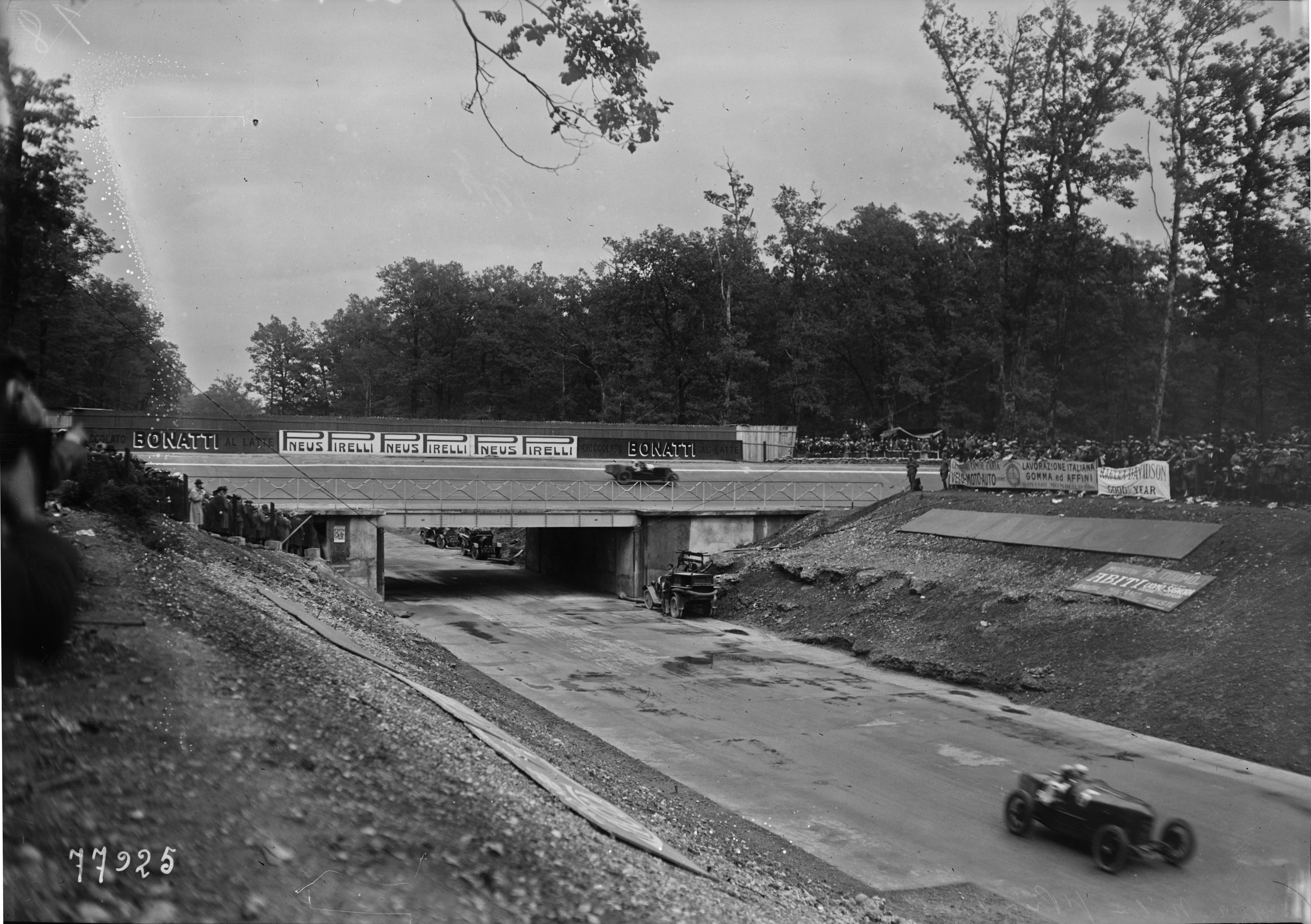 Bridge at the 1922 Italian Grand Prix